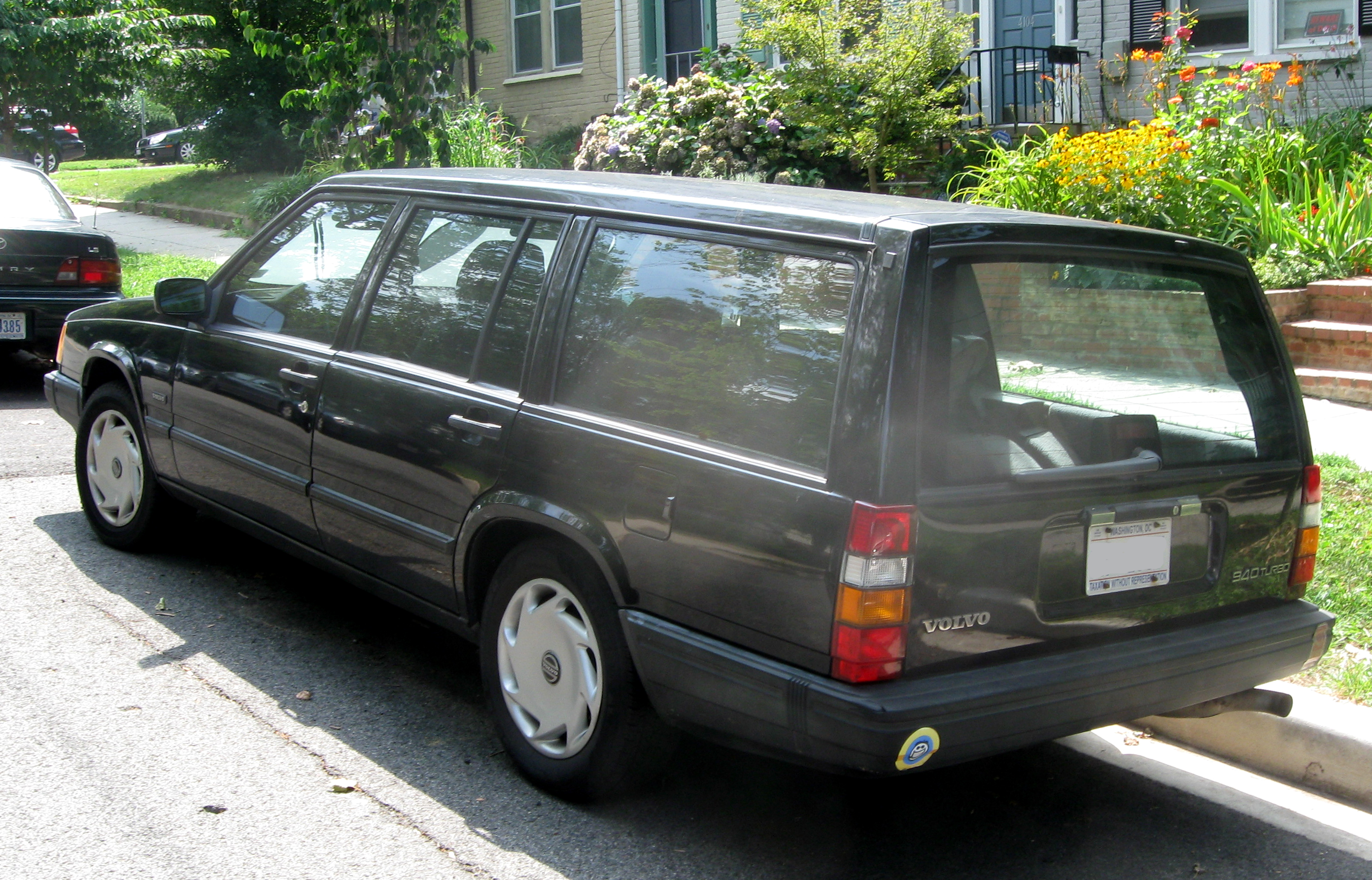 Volvo 940 Turbo wagon photographed in Washington, D.C., USA.